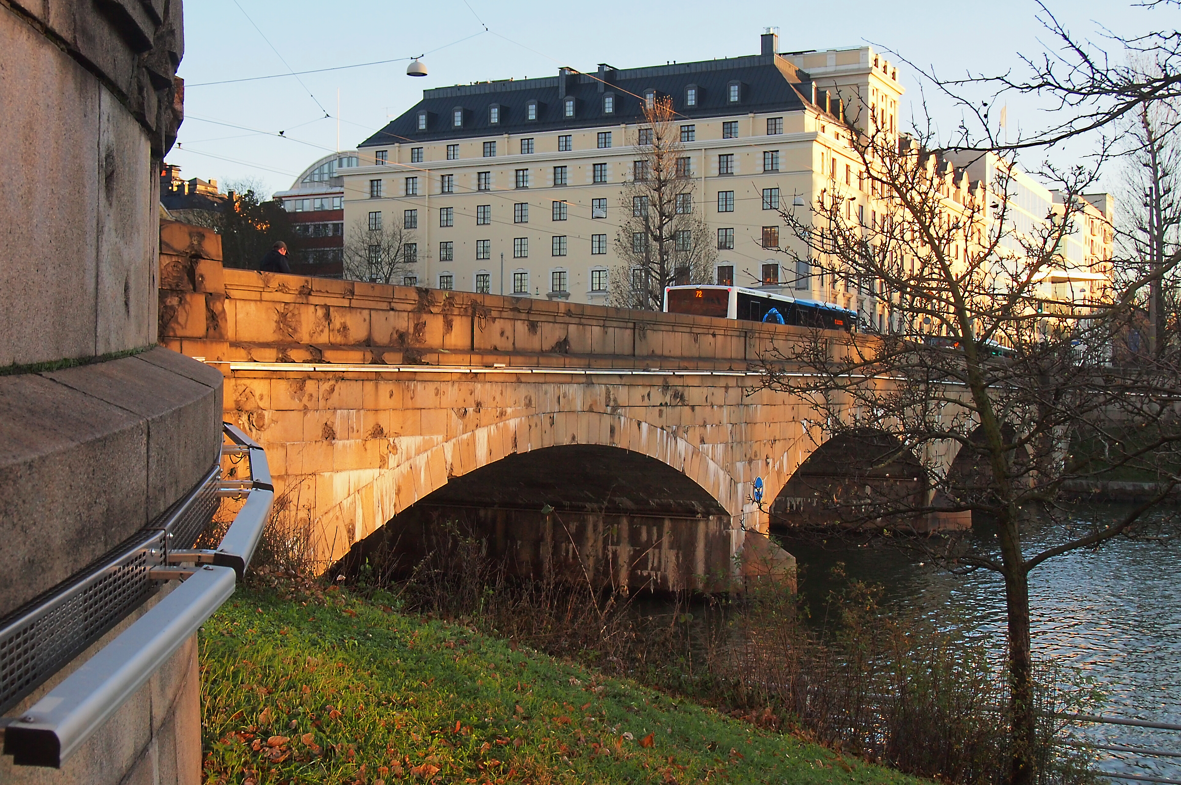 The bridge Pitkäsilta connects the quarters of Kruununhaka and Kallio in Helsinki, Finland.